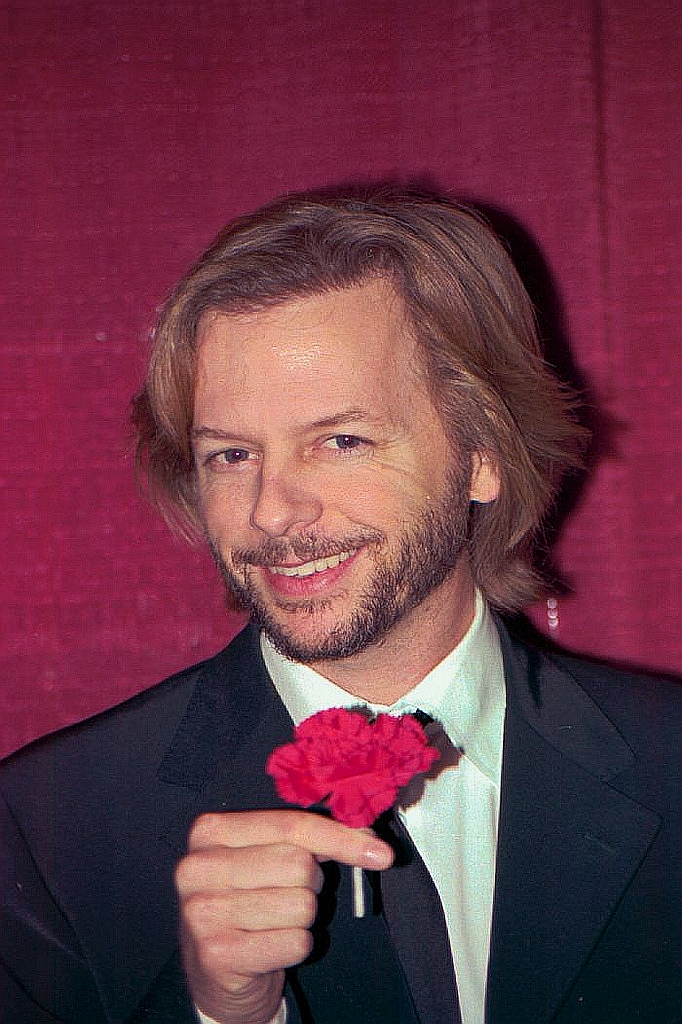 Contact me for usage of this image. © copyright JohnMathewSmith 2010